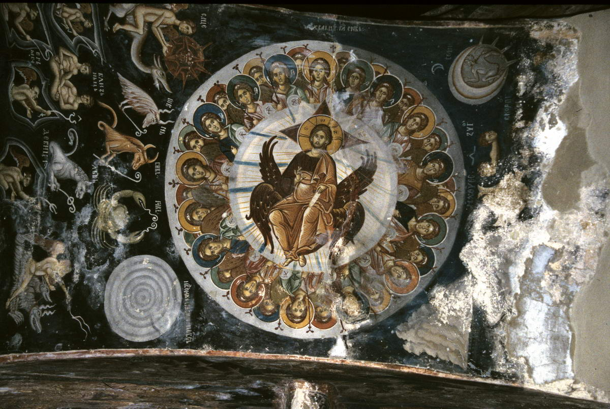 Frescos in St. Michael the Archangel Church in Lesnovo, Macedonia